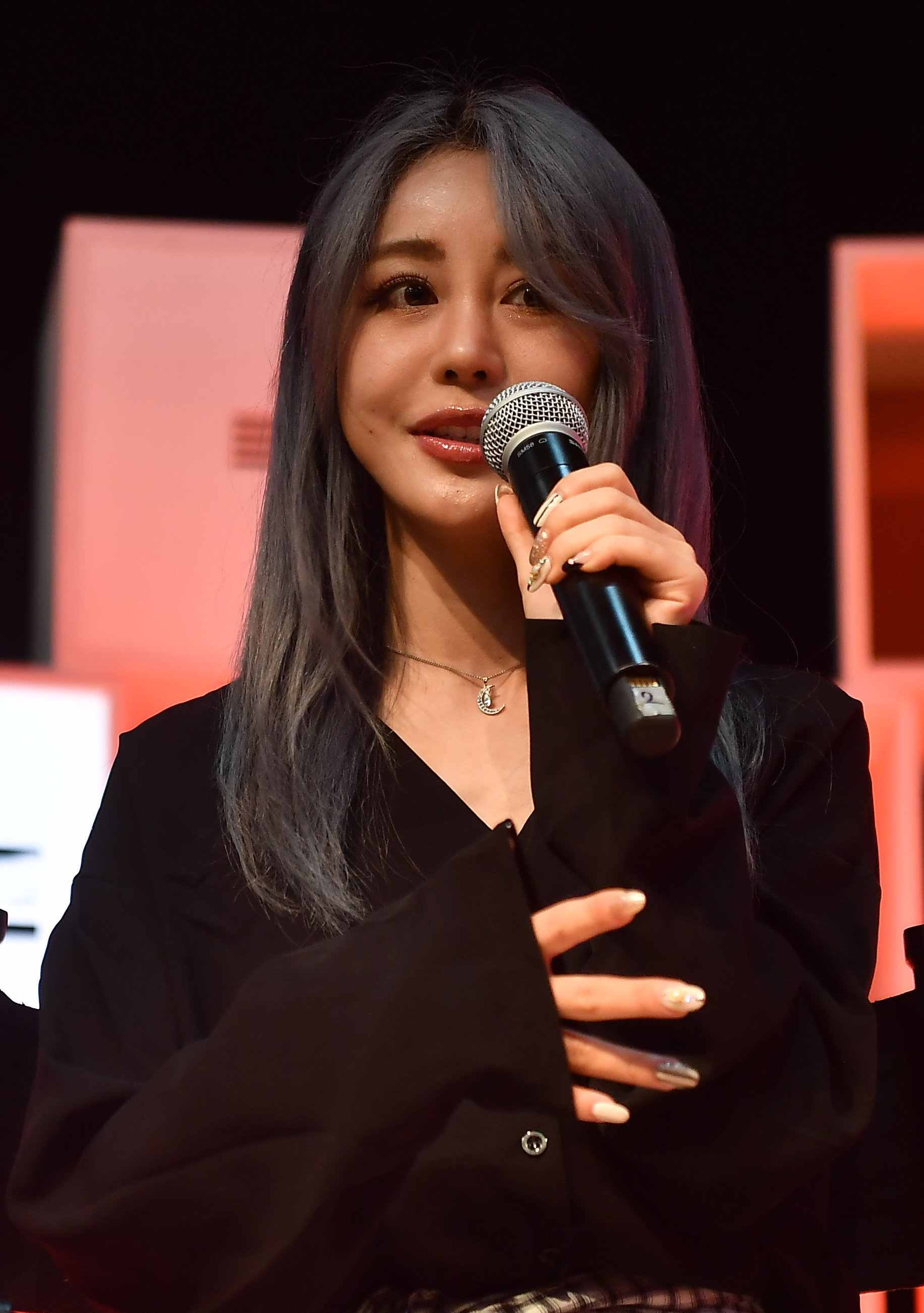 11 July 2019; Wengie A, YouTube Star, Wengie, on Q + A Stage during day three of RISE 2019 at the Hong Kong Convention and Exhibition Centre in Hong Kong. Photo by David Fitzgerald/RISE via Sportsfile